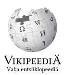 A logo for Wikipedia in the Võro language.